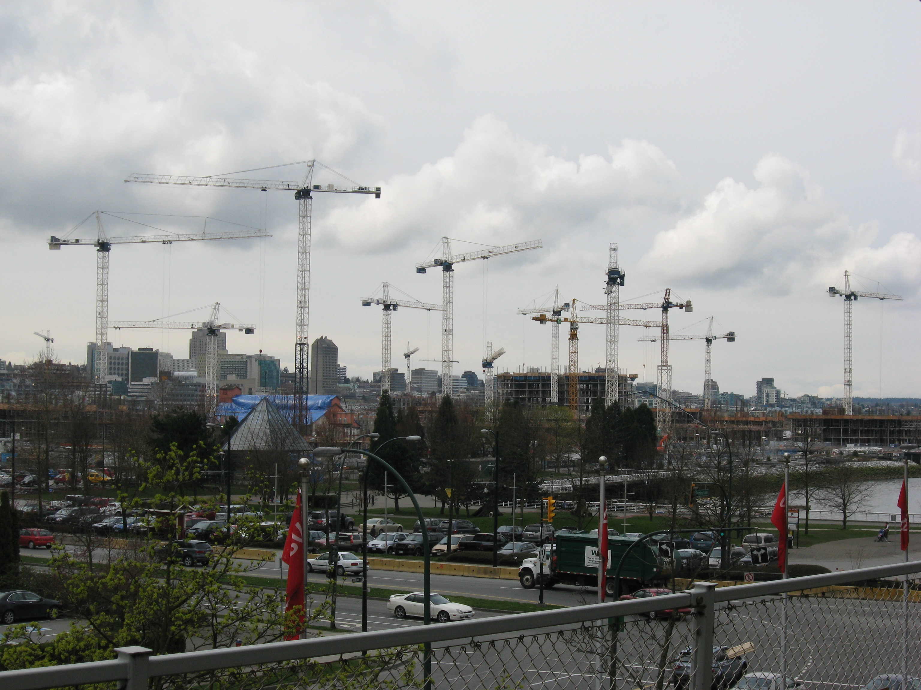 Vancouver, B.C.A forest of cranes towers over the Olympic village being constructed on the southeastern shore of False Creek near downtown Vancouver.